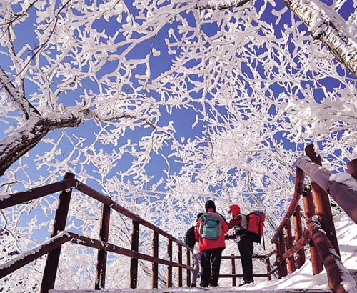 Snow-covered Bukhansan (북한산)